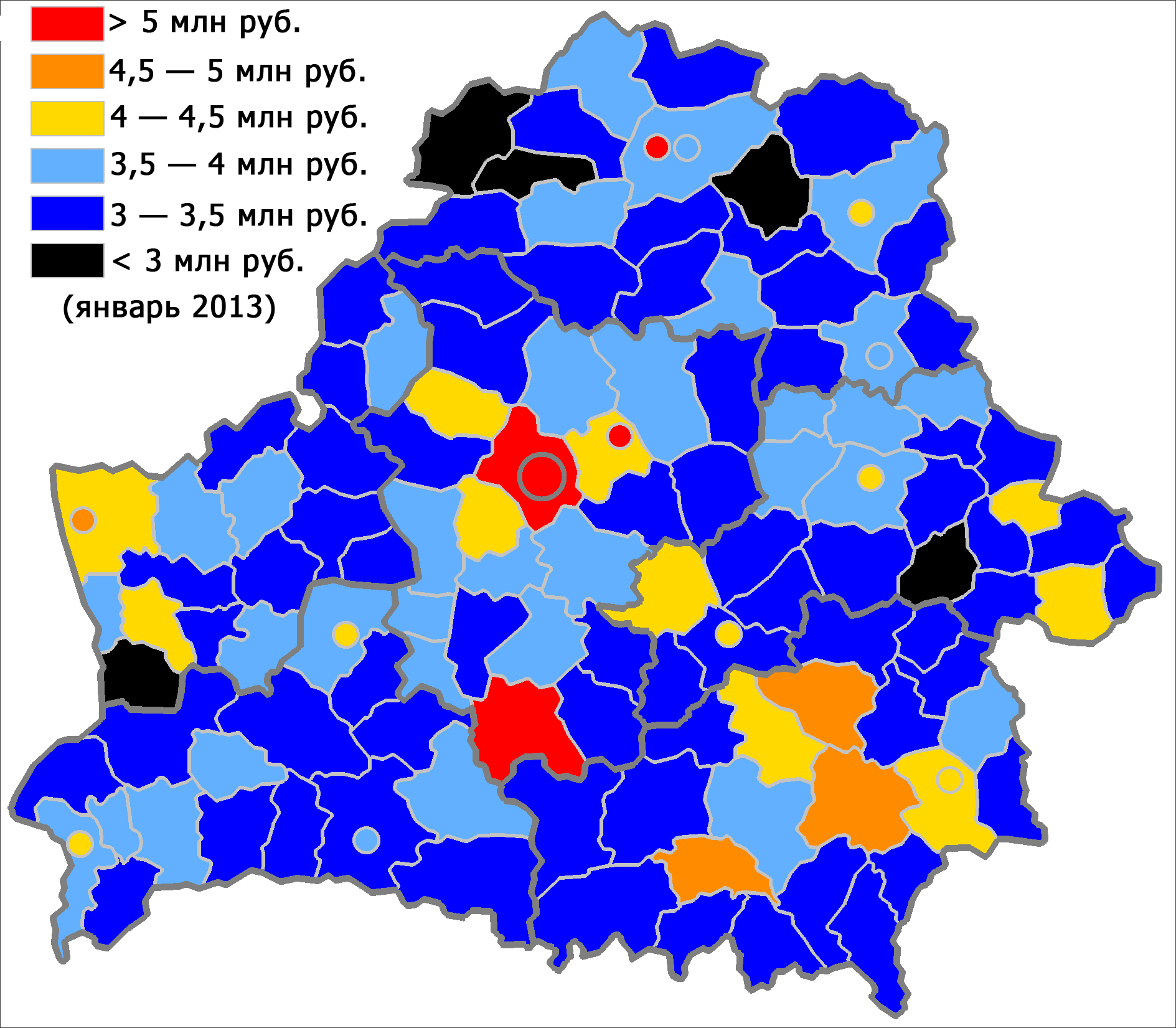 Nominal accrued wages in Belarus by districts (rayons). Actual data for January 2013. All wages are given in Belarusian rubles (млн руб. = million of rubles). As of 31 January 2013, 8630 BYR = 1 USD. Source —